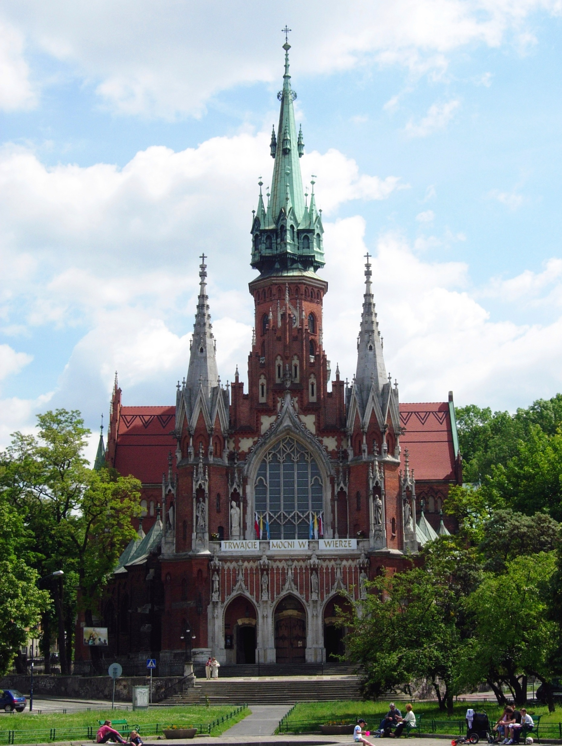 Saint Joseph church in the Podgórze district of Kraków